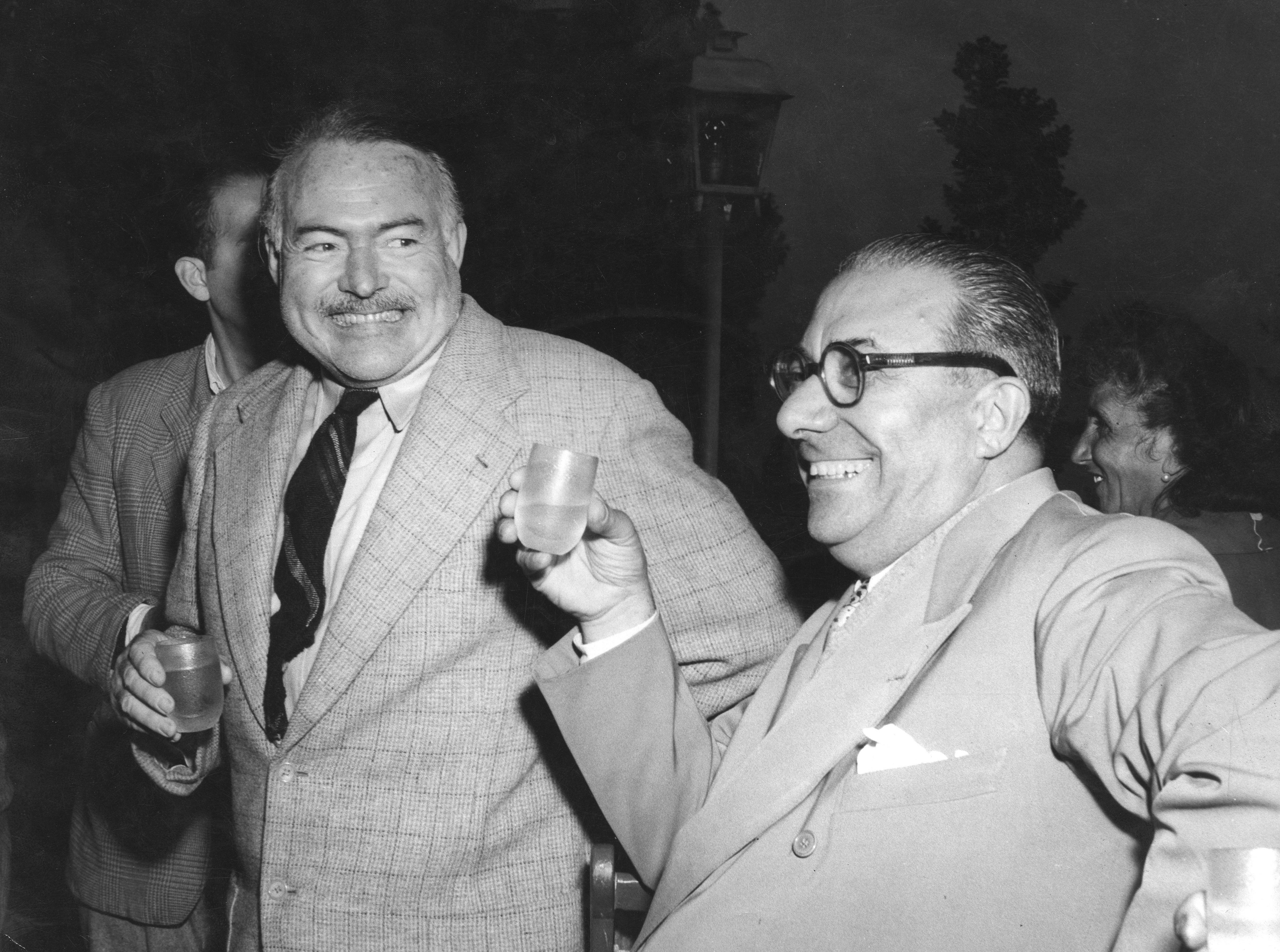 Ernest Hemingway, american author (1899 —1961), with Italian publisher Arnoldo Mondadori in Meina, Italy in 1948.